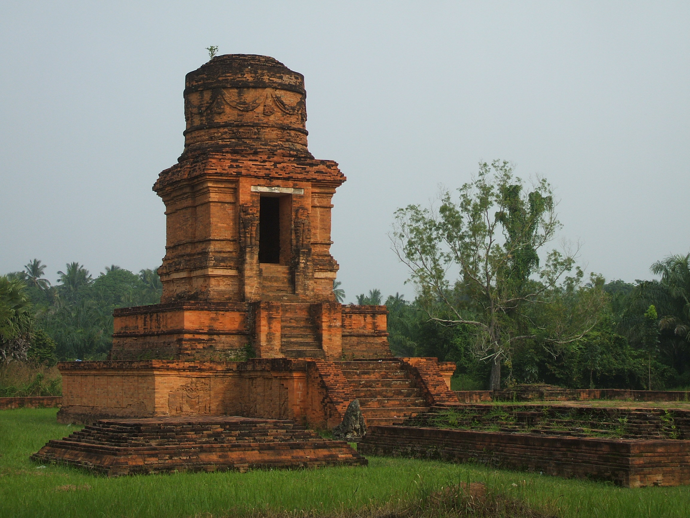 A Buddhist temple Biaro Bahal or Candi Bahal 1, an archaeological site in Padang Lawas, North Sumatra.